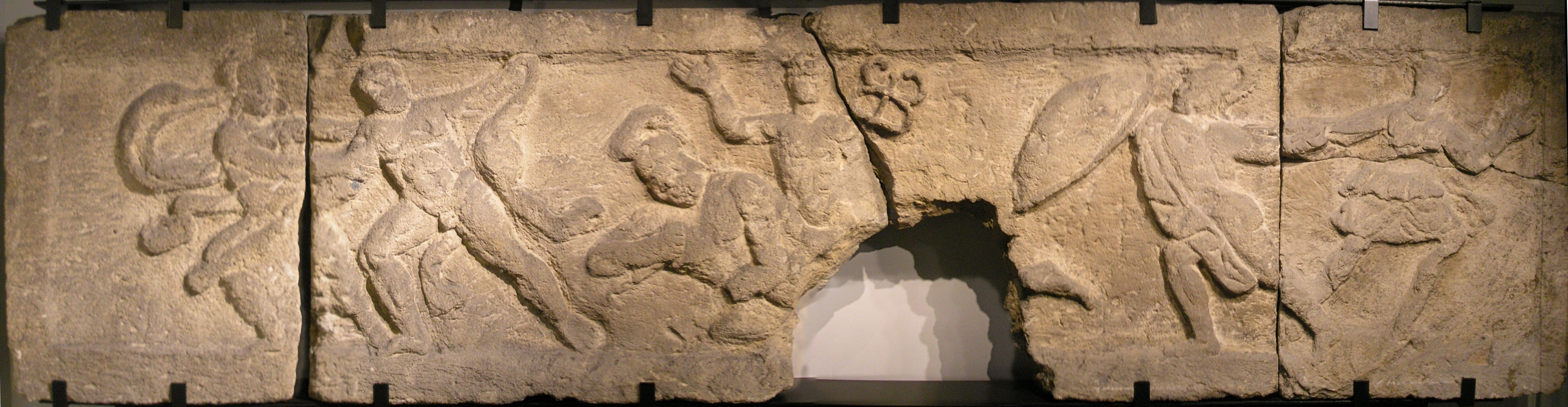 Cygnus-Relief, 2nd/3rd century A.D. Lime sandstone. In 1890, late antique coffins made of stone slabs were discovered at the Arsenal. Because of the depictions and monumentality of the stone plates, it is likely that these were once attached to large public buildings. The stone coffins may have possibly been robbed already in ancient times. Scorch marks, and a big hole that was blasted by tomb raiders, are evidence of this. The scene on this relief, that possibly originated from a temple, allows an insight into the Greek myth of Heracles. The hero has just slain the giant Cygnus, whose father Ares/Mars is now raging to avenge his death. Athena/Minerva is on Heracles's side to help. In the original version of the myth, Zeus/Jupiter steps in to mediate. Aphrodite/Venus joins Mars. In this depiction, Jupiter has been replaced by Mercury. Dianda takes the place of Venus. Mercury was especially worshipped in formerly Celtic regions and was equated here with Jupiter.